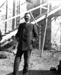 Spiridon Kourevelis